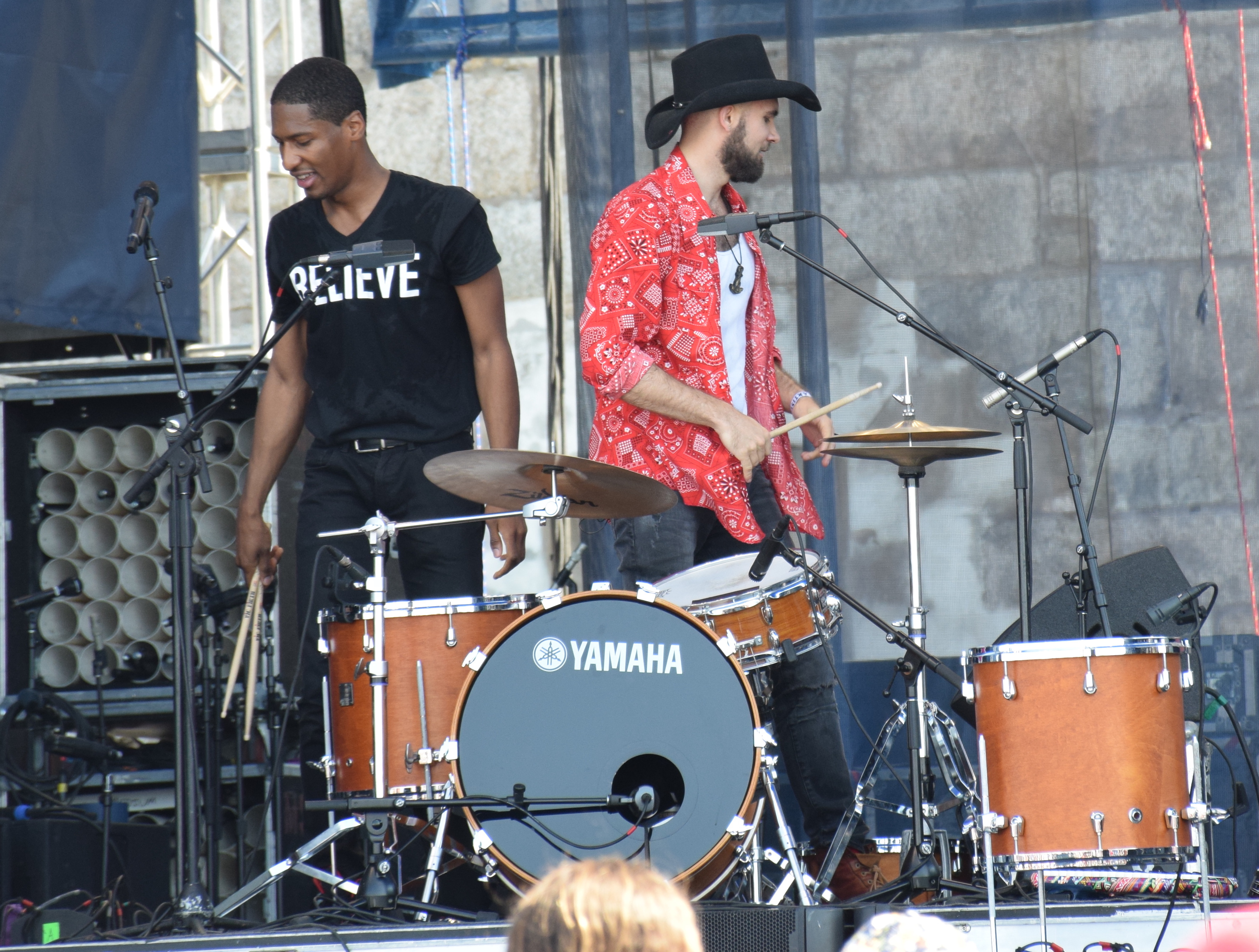 I was able to share my Jazz Diplomacy experience at Newport Jazz Festival as a guest of Natixis Global Asset Management @JonBatiste is Stephen Colbert's new band leader.